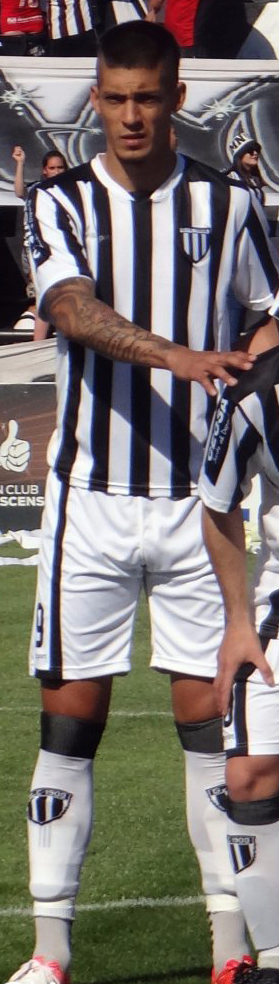 Pablo Palacios Alvarenga with the shirt of Gimnasia of Mendoza in 2017.